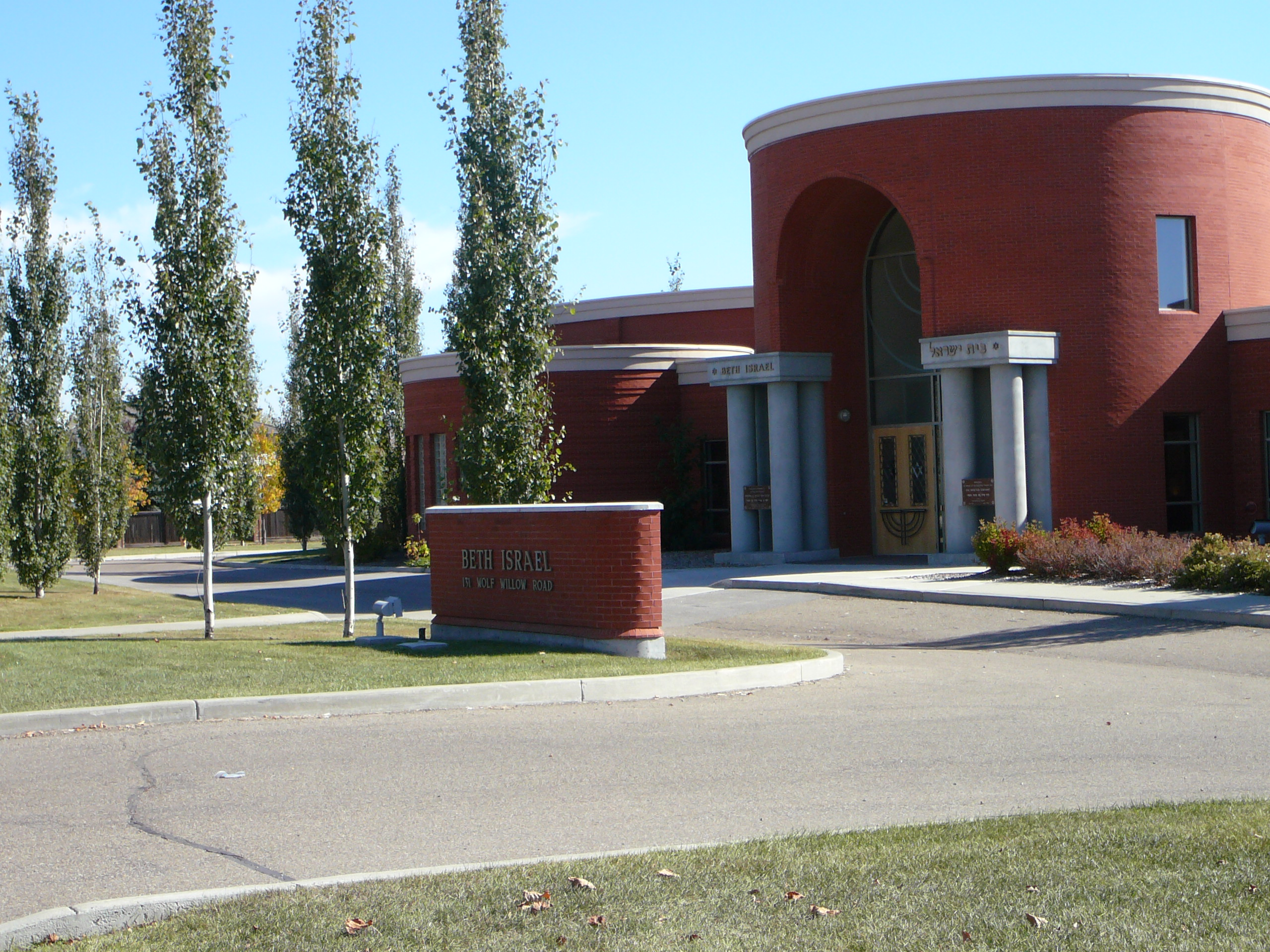 Picture of Beth Israel Synagogue in Edmonton, Canada